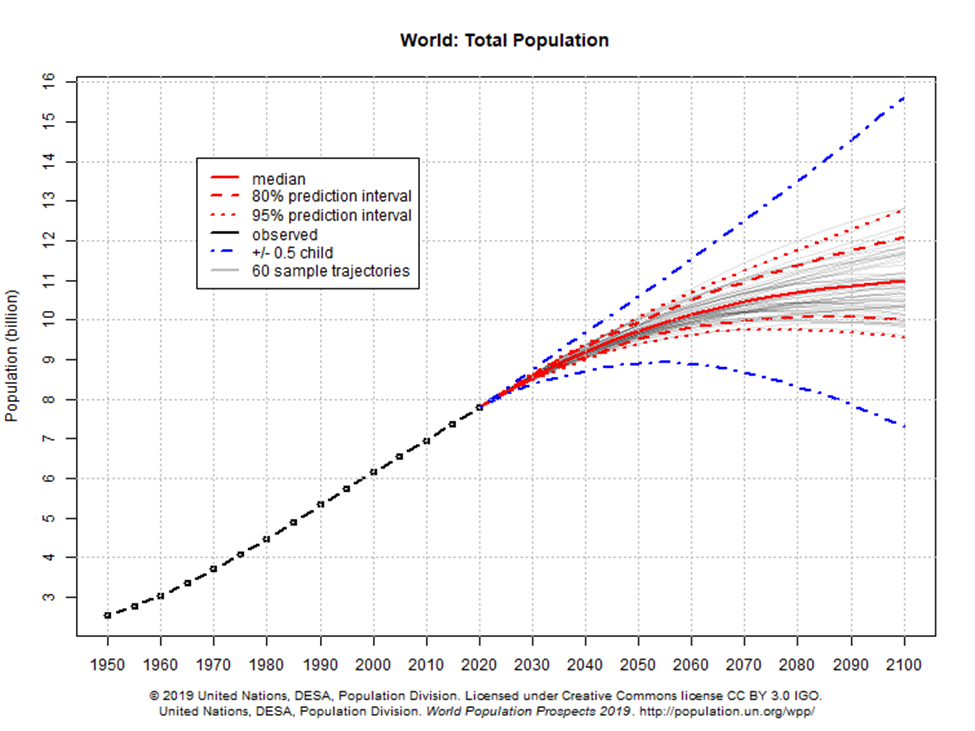 This chart shows estimates and probabilistic projections of the total population for the world. The population projections are based on the probabilistic projections of total fertility and life expectancy at birth. These probabilistic projections of total fertility and life expectancy at birth were carried out with a Bayesian Hierarchical Model. The figures display the probabilistic median, and the 80 and 95 per cent prediction intervals of the probabilistic population projections, as well as the (deterministic) high and low variant (+/- 0.5 child).